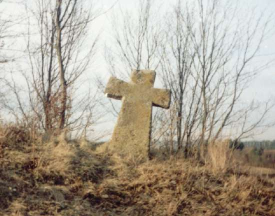 A stone cross on the Cossack's grave in Rivne Oblast, Ukraine.